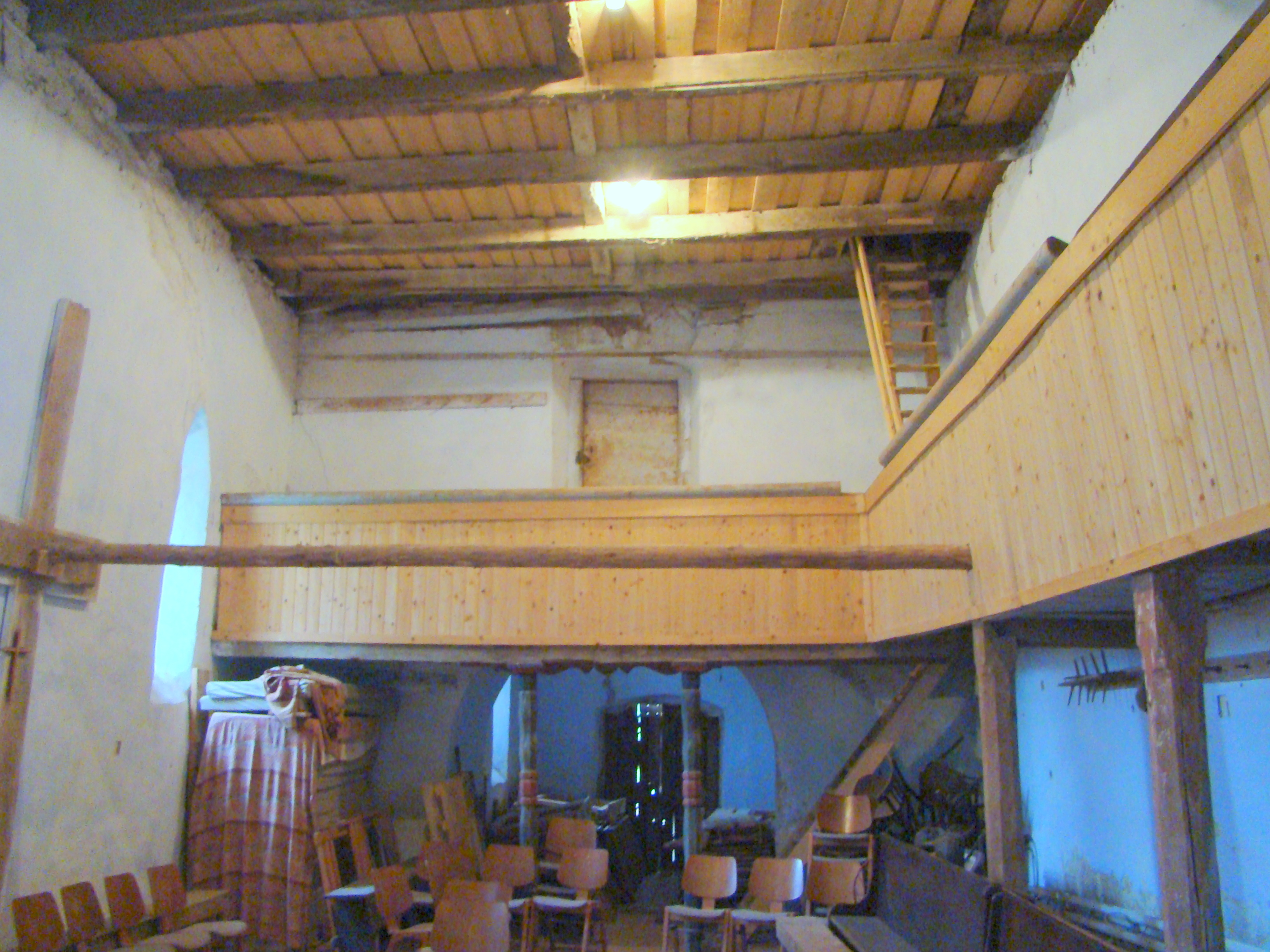 Lutheran church in Vulcan, Mureș county, Romania